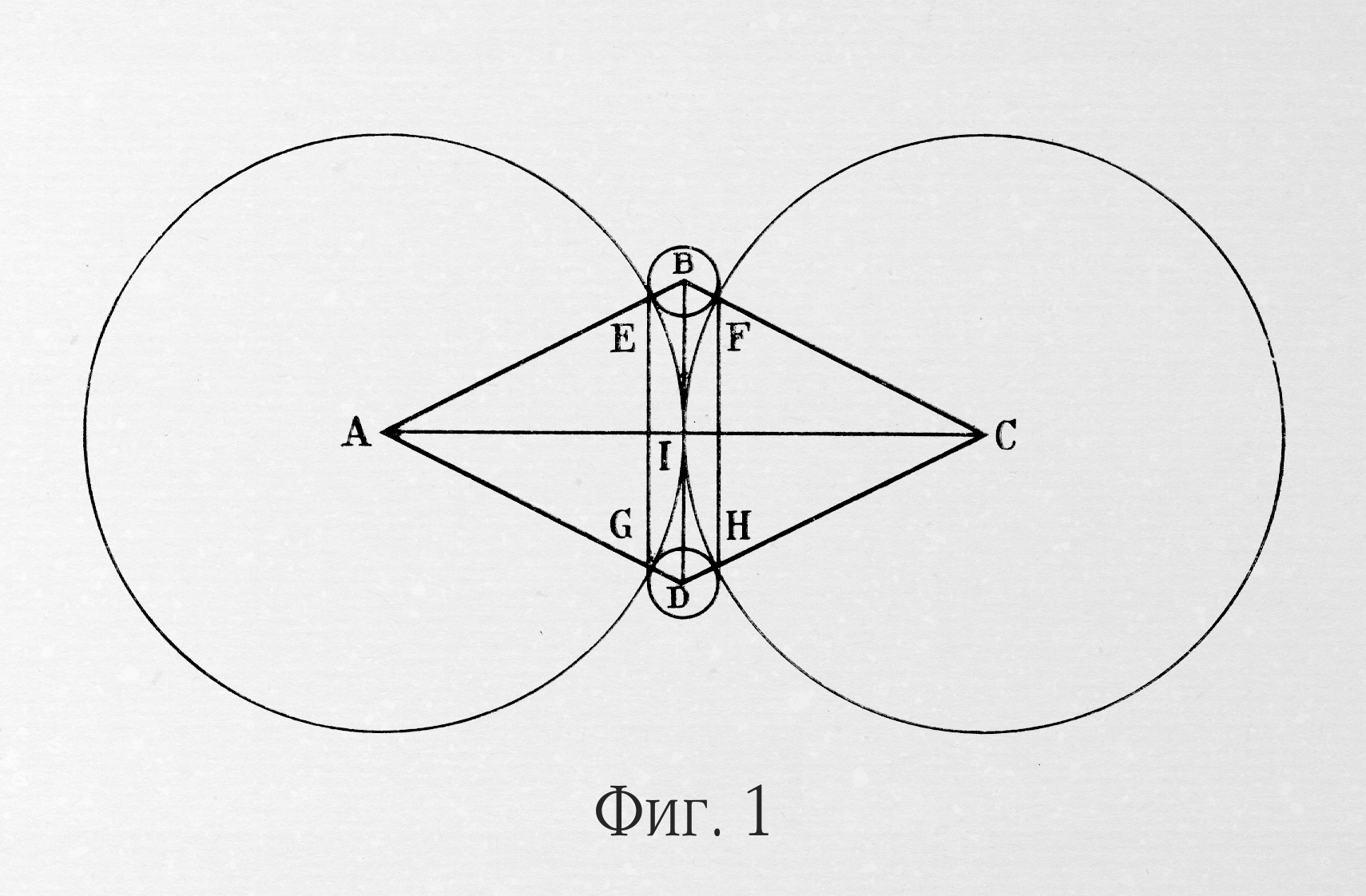 In drawing Mikhail Lomonosov for his article «Discourse on the hardness and fluid of body» (1760) — After his successful experiment of freezing mercury.